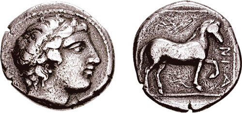 Pausanias AR Stater. Circa 395/4-393 BCE. Aigai mint. Head of Apollo right, with short hair, in taenia / [Π]ΑΥ[Σ-A]-NIA, horse advancing right, trailing rein, within linear border in shallow incuse square.